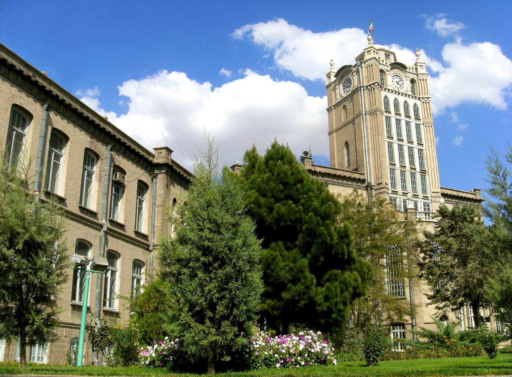 Tabriz Municipality Sa'at (means: Clock) Tower.